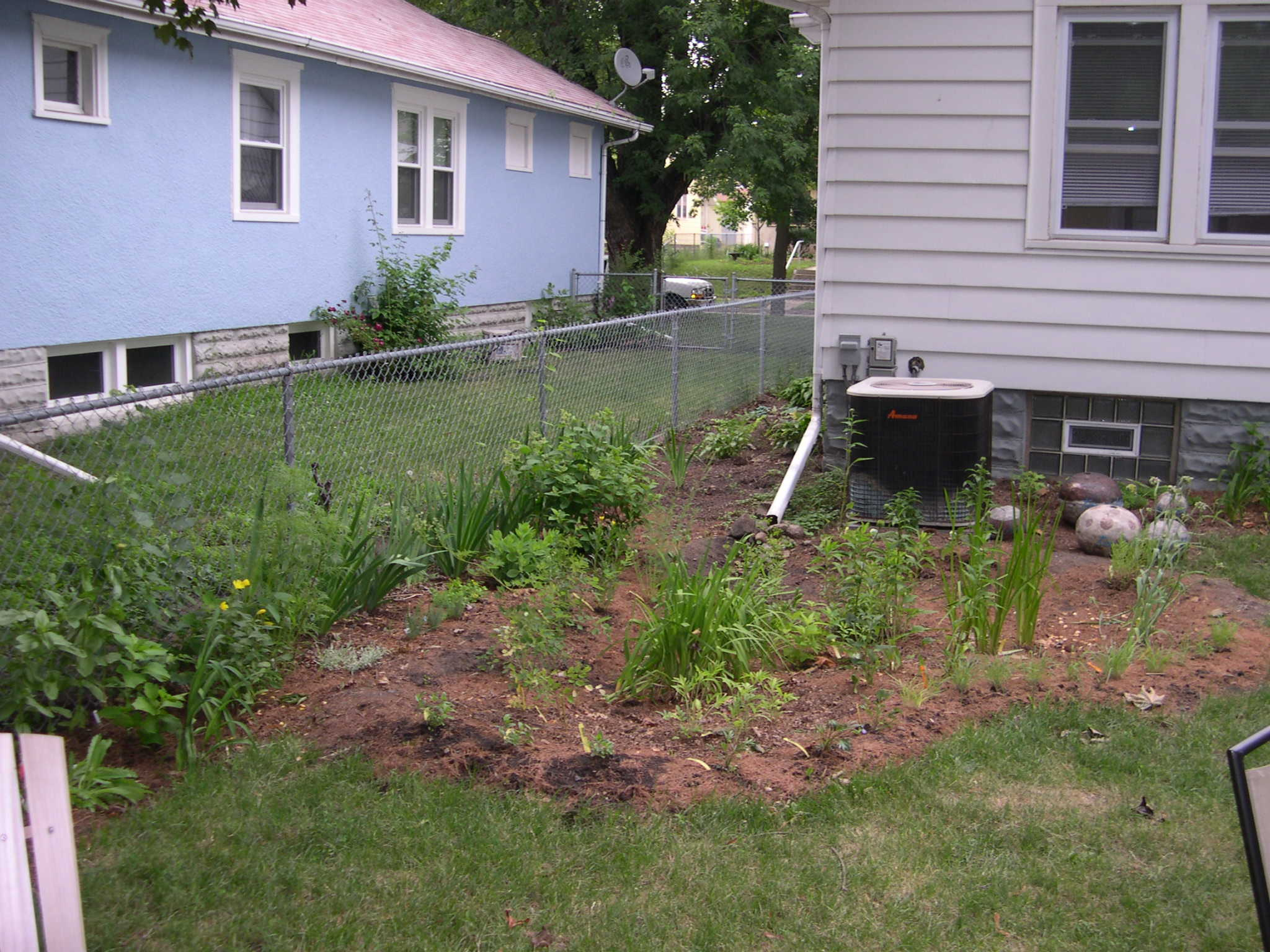 My brother's neighbor created planted this rain garden in 2006 to catch water from their downspout. Rain gardens often look this sparse the first year. Locally native plants cost more money than commercial grass seed. A 2007 photo would look much more full. The water table in this neighbor hood is quite high in Springtime. The difference in time delay between sump pump cycles when one pumps water to the East verses West side of these houses indicates that groundwater flows eastward toward the Mississippi River in the Seward Neighborhood of Minneapolis, MN (USA). I took this picture myself with the neighbor's permission, with my own camera.